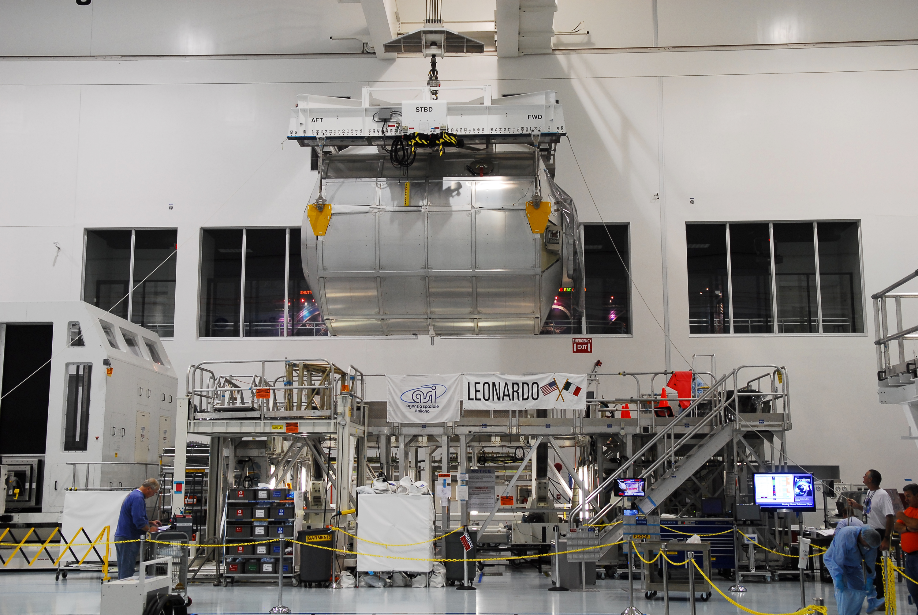 In the Space Station Processing Facility at NASA's Kennedy Space Center in Florida, the Permanent Multipurpose Module, or PMM, is being transferred by overhead crane towards a payload canister. The canister will then be transported to Launch Pad 39A and installed into space shuttle Discovery's payload bay. Discovery and its STS-133 crew will deliver the PMM, packed with supplies and critical spare parts, as well as Robonaut 2, the dexterous humanoid astronaut helper, to the International Space Station.